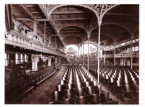 The Paradise Roof Garden above the Victoria Theatre, NY, c. 1902. Card from a postcard book. The theatre was demolished in 1915.